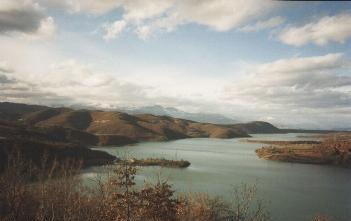 Debar Reservoir on Black Drin river in 1996